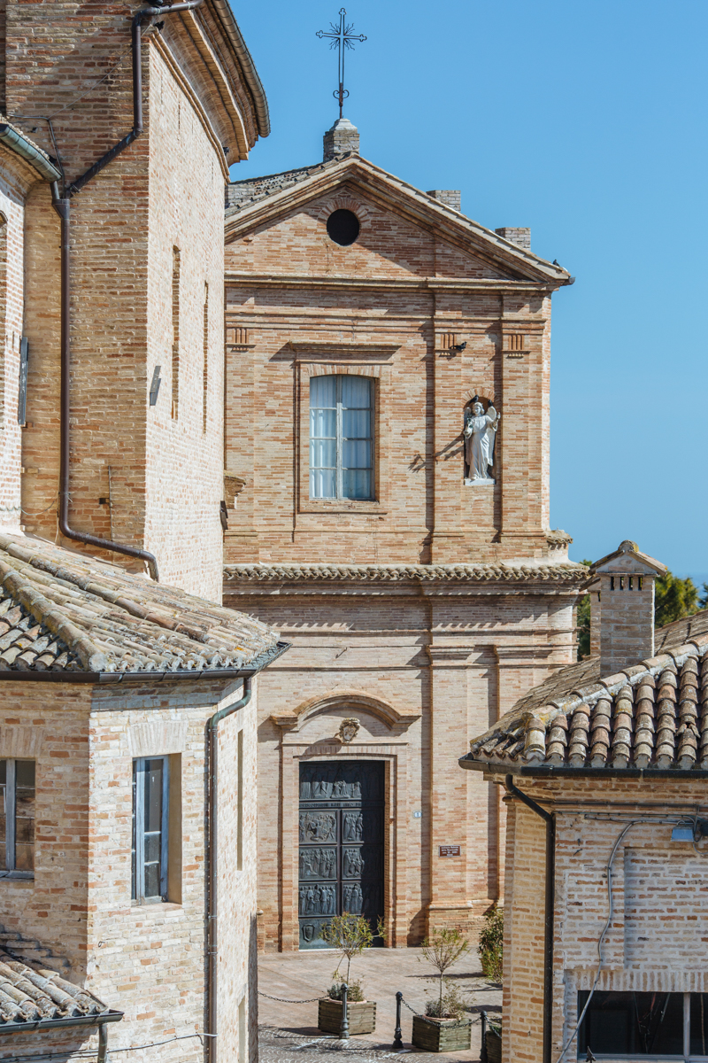 Santuario della Madonna della Misericordia